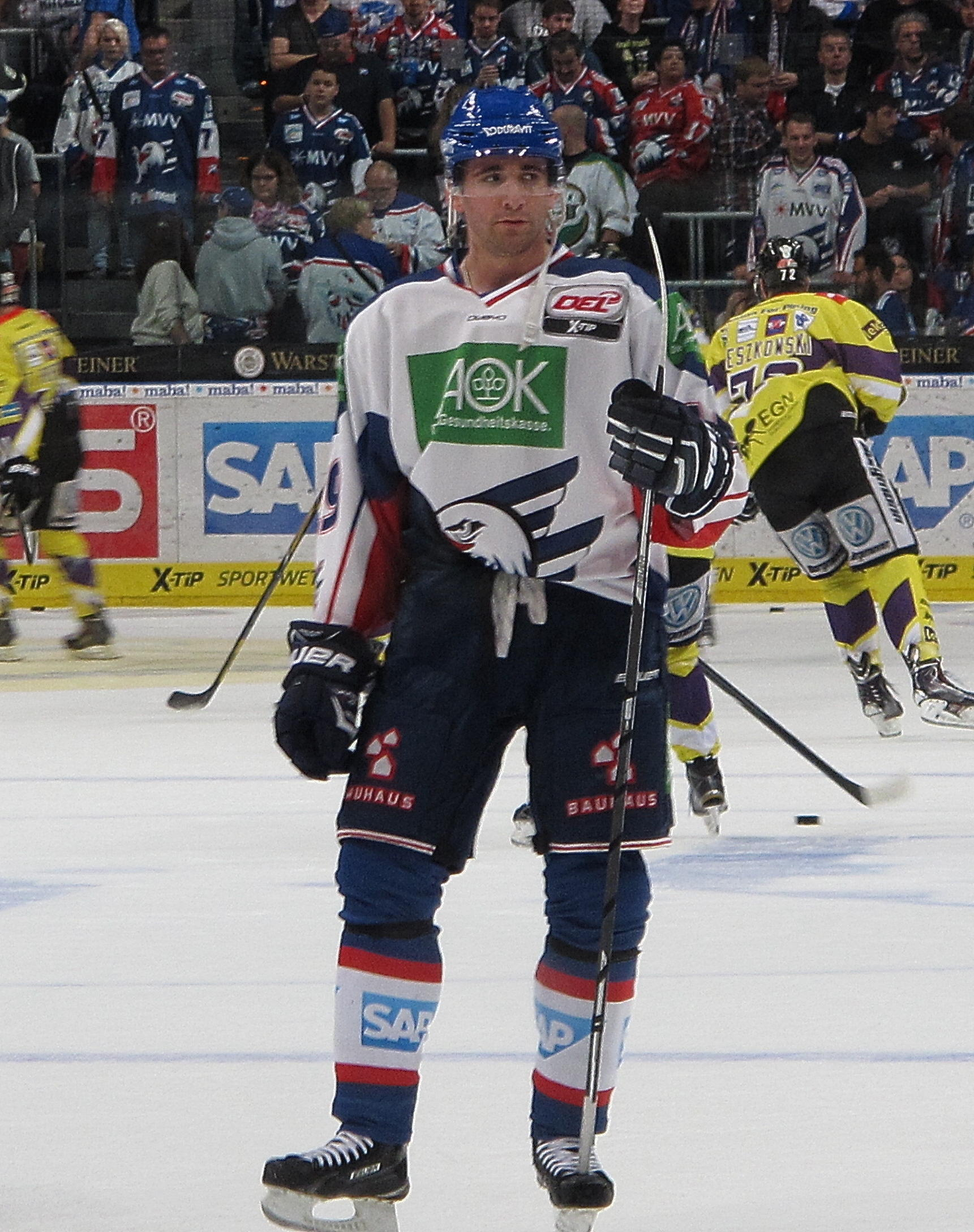 Danny Richmond, Ice hockey player from Illinois, defender, Adler Mannheim